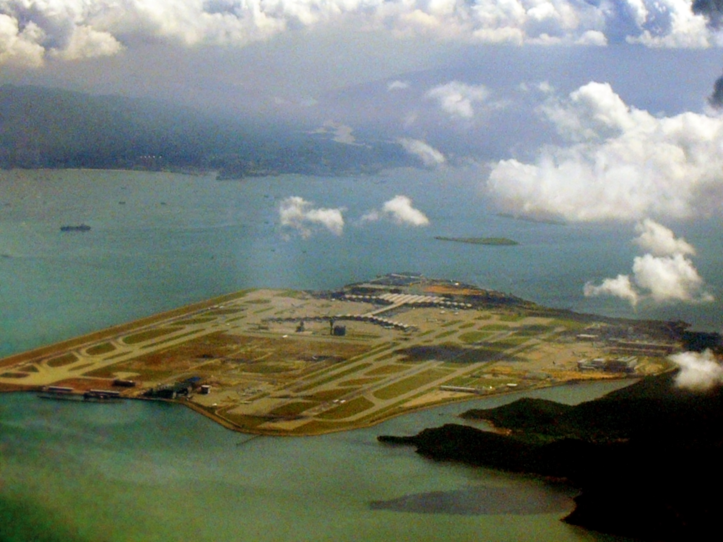 I created this while flying.